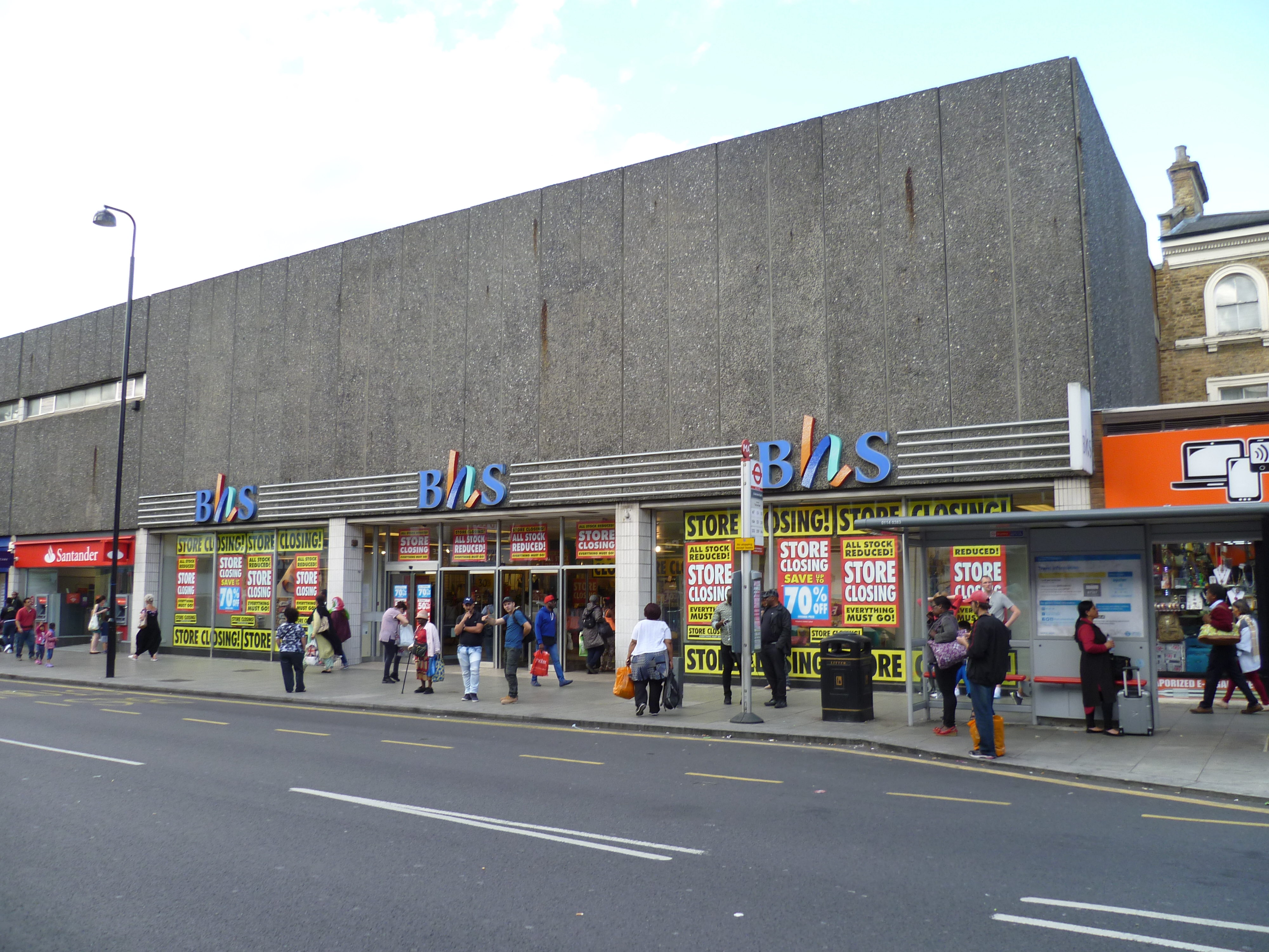 British Home Stores closing down sale Wood Green, London 3 August 2016